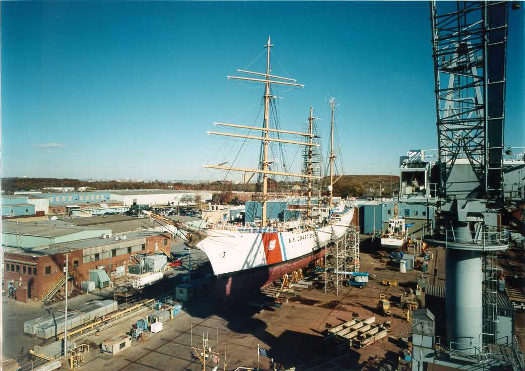 USCGC Eagle at Coast Guard Shipyard, Baltimore, Maryland